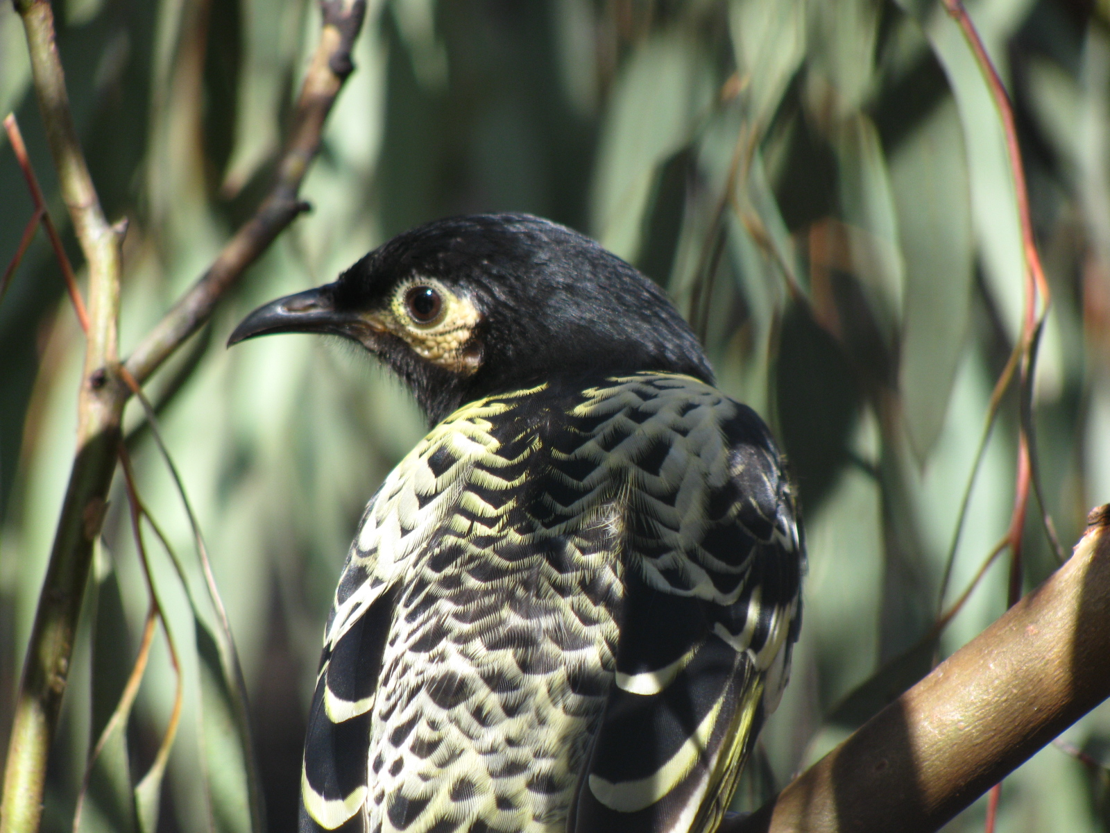 A Regent Honeyeater Anthochaera phrygia (syn. Xanthomyza phrygia) at the Adelaide Zoo.